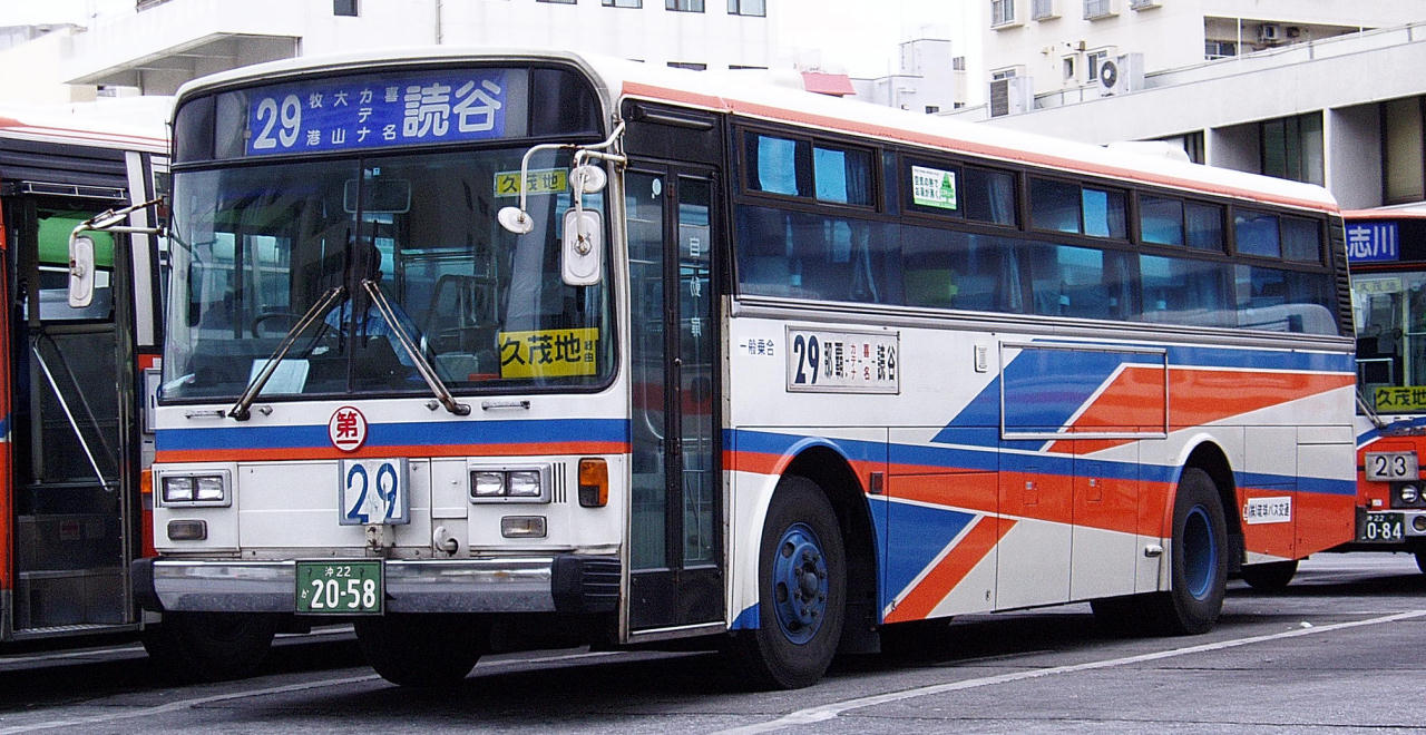 Ryukyu Bus Kotsu